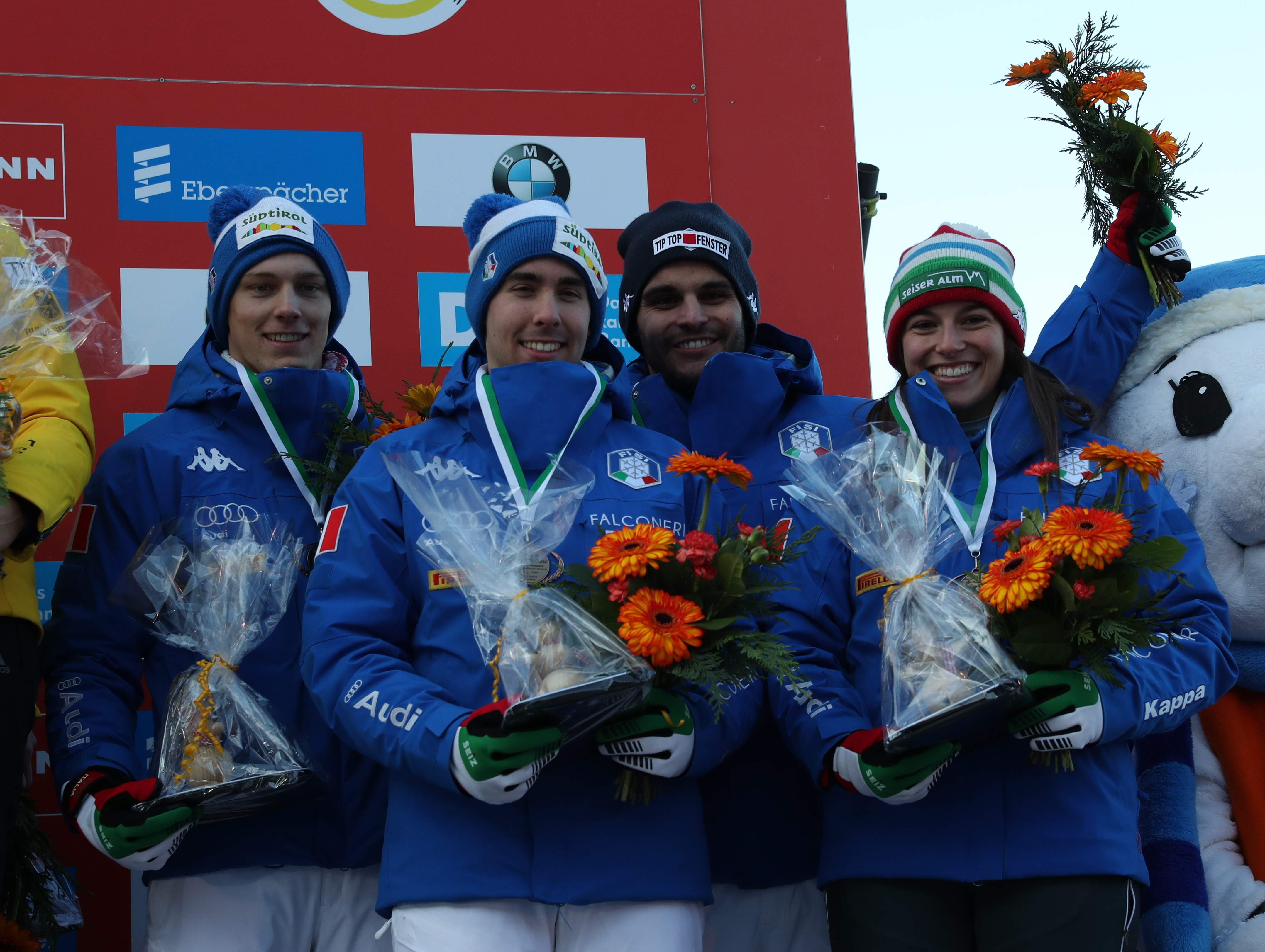 award ceremony at the Altenberg luge world cup 2017/18: Team Italia (Sandra Robatscher, Emanuel Rieder, Ivan Nagler, Fabian Malleier)